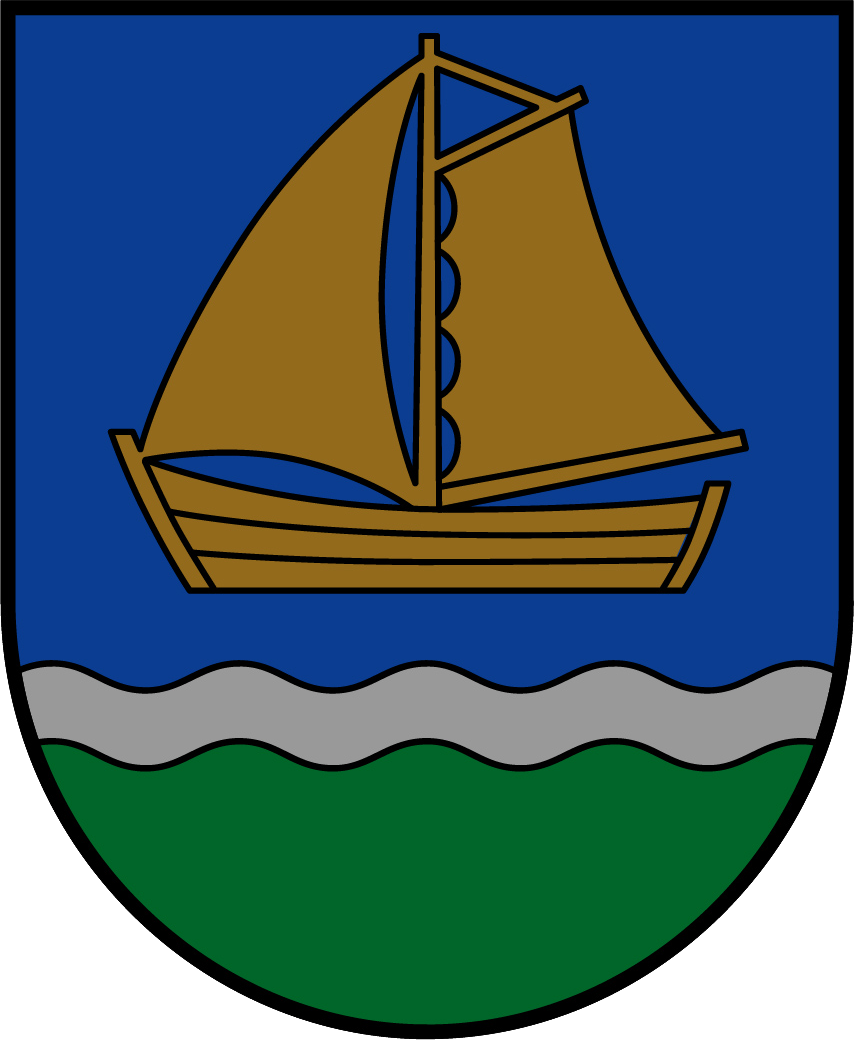 Coat of arms of Ventspils Municipality, Latvia.